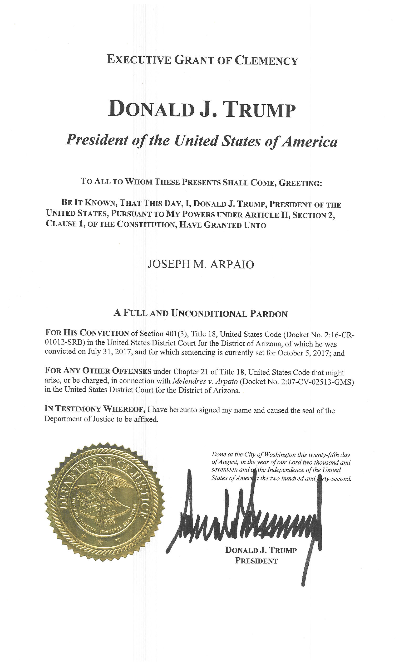 Executive Grant of Clemency by President Donald J. Trump of a full and unconditional pardon to Joseph M. Arpaio on August 25, 2017.